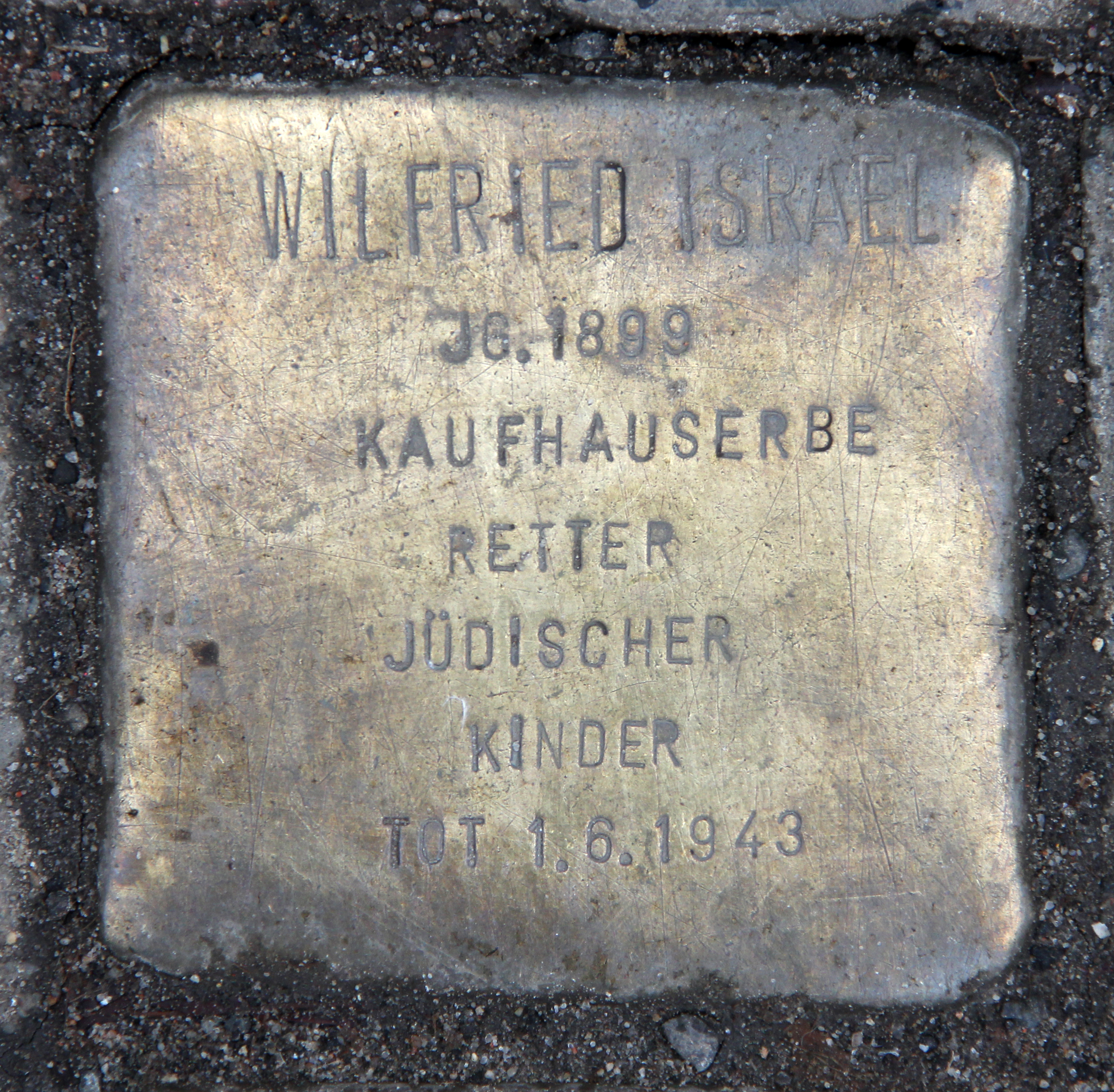 "Stolperstein" (stumbling block), Wilfrid Israel, Spandauer Straße 17, Berlin-Mitte, Germany